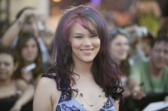 Joss Stone at the 2007 MuchMusic Video Awards red carpet.